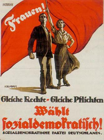 Gleiche Rechte Gleiche Pflichten. German social democrat party election poster 1919.